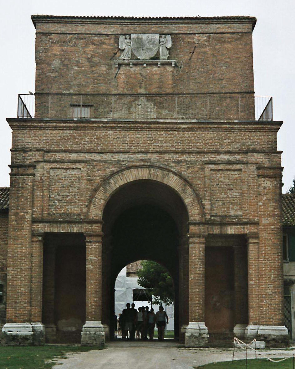 Este Castle Belriguardo in Voghiera (Prov. Ferrara)